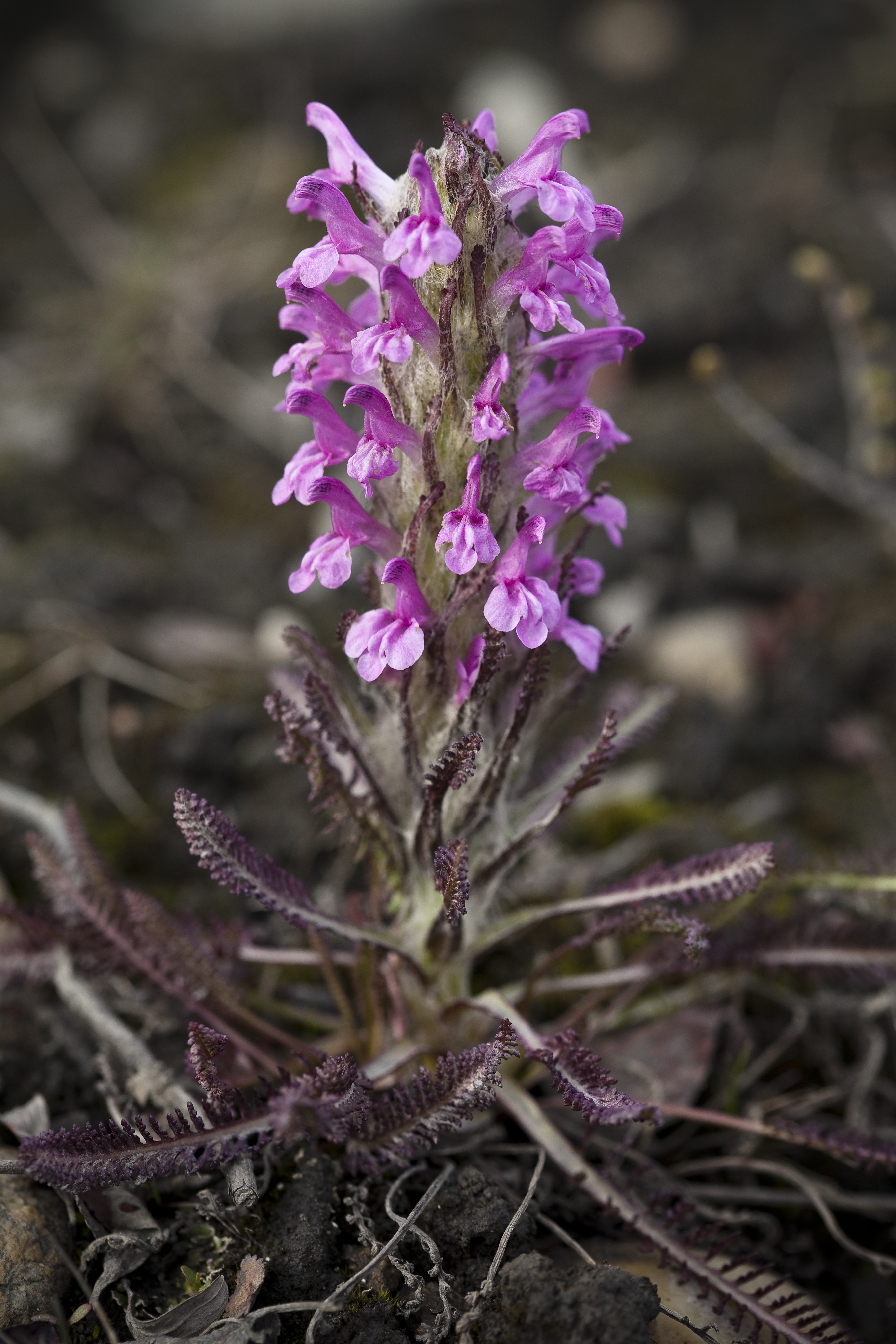 Pedicularis lanata, Denali National Park and Preserve, AK, USA